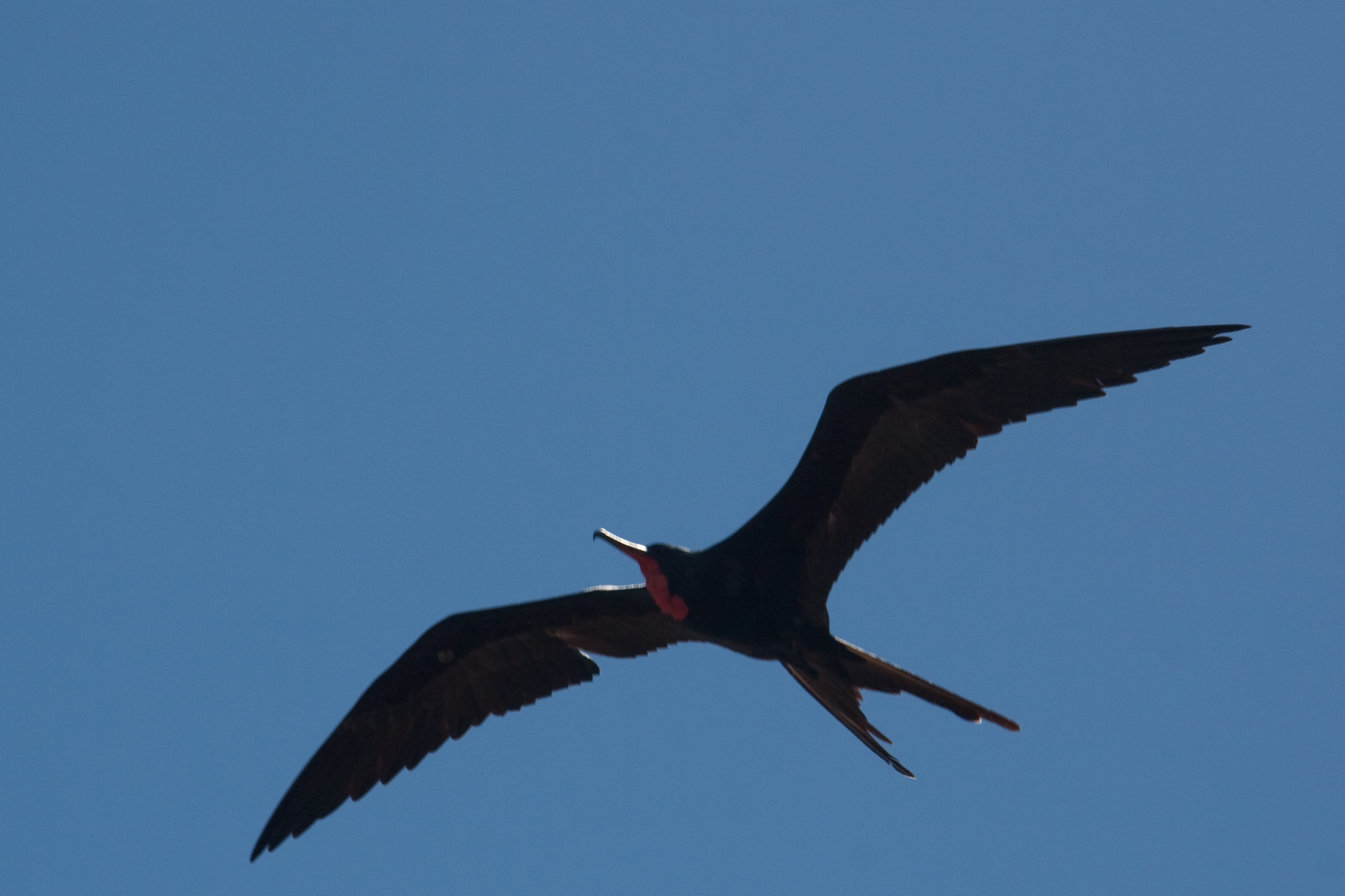 The Magnificent Frigatebird (Fregata magnificens), North Seymour Island, Galápagos, Ecuador.